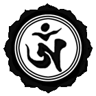 My performance